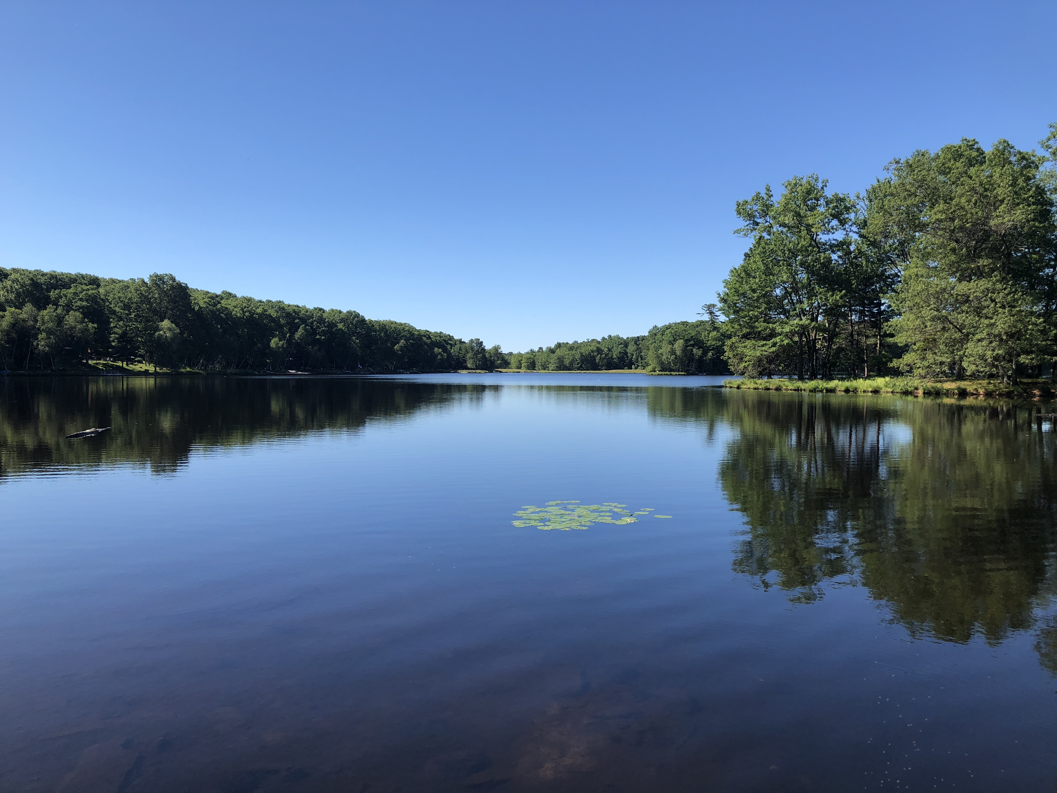 Standing at the inlet of Sunrise Lake (Poison Brook), viewing the East Dam in the distance